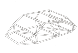 Drawing of a general chassis for a sedan car.